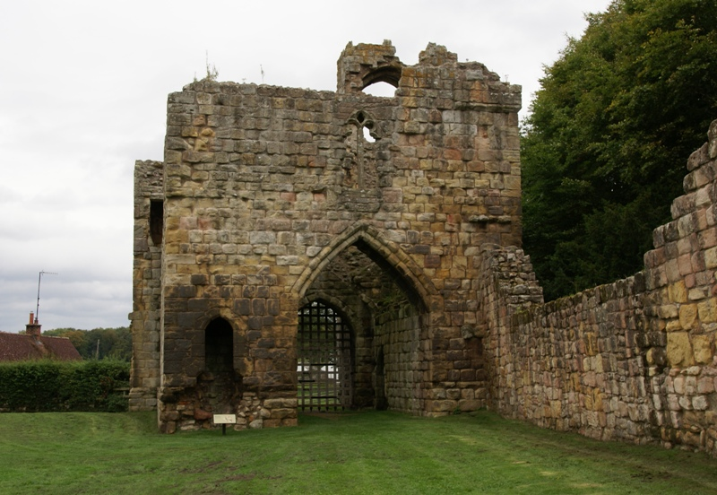 Etal Castle, Northumberland, England. Gatehouse viewed from the west.